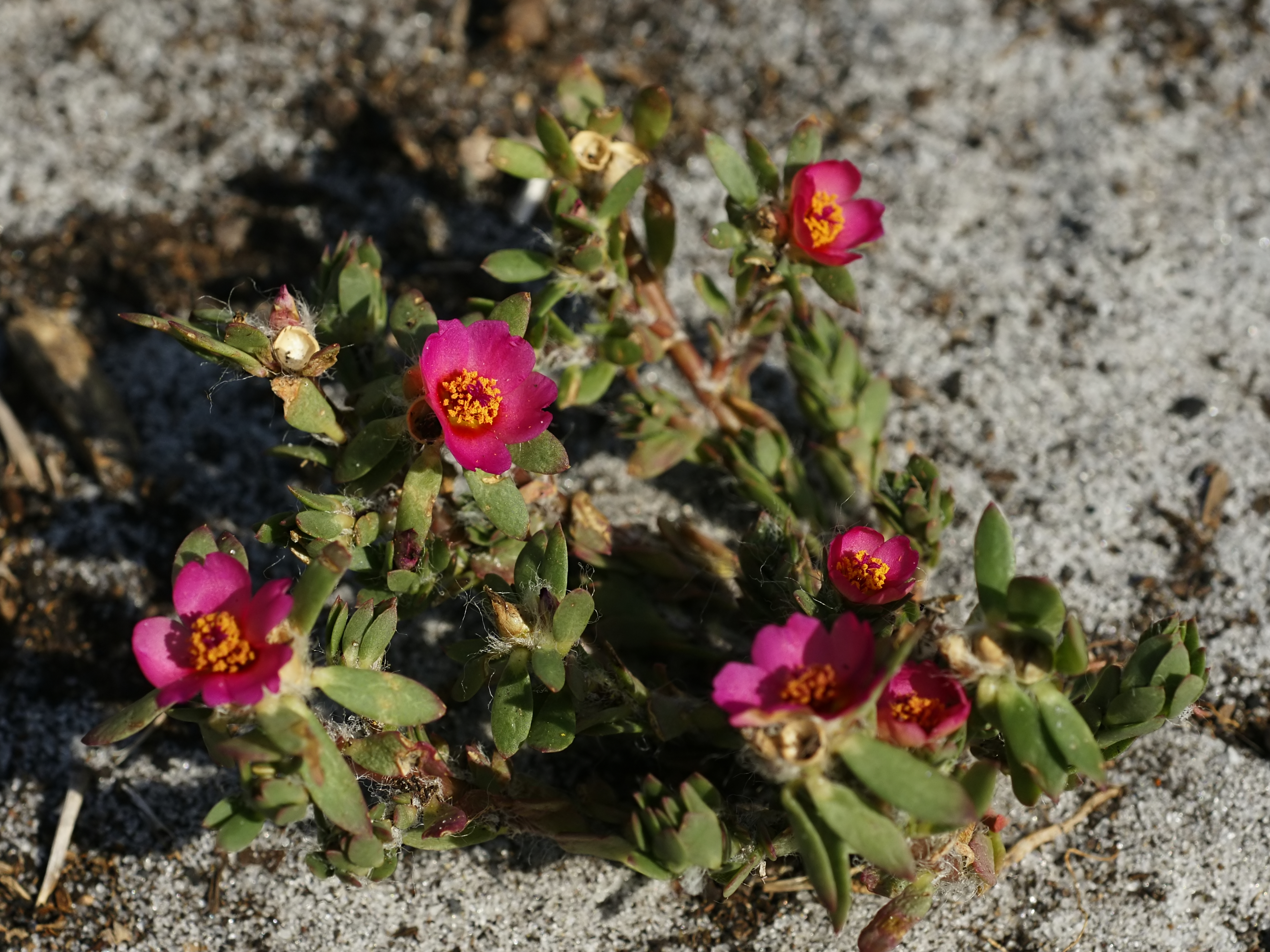 Paraguayan Purslane at Jonathan Dickinson State Park in Martin County, Florida, U.S.A.